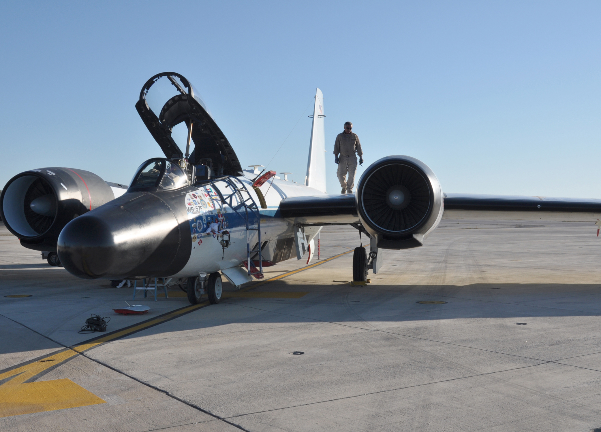 ROTA, SPAIN (Sept. 9, 2011) John Perry, a NASA WB-57 high altitude research aircraft maintainer, conducts start up checks on a WB-57 aircraft at Naval Station Rota, Spain. The crew from the Johnson Space Center visited Rota for routine maintenance and refueling of the aircraft. (U.S. Navy photo by Mass Communication Specialist 2nd Class Travis Alston/Released)